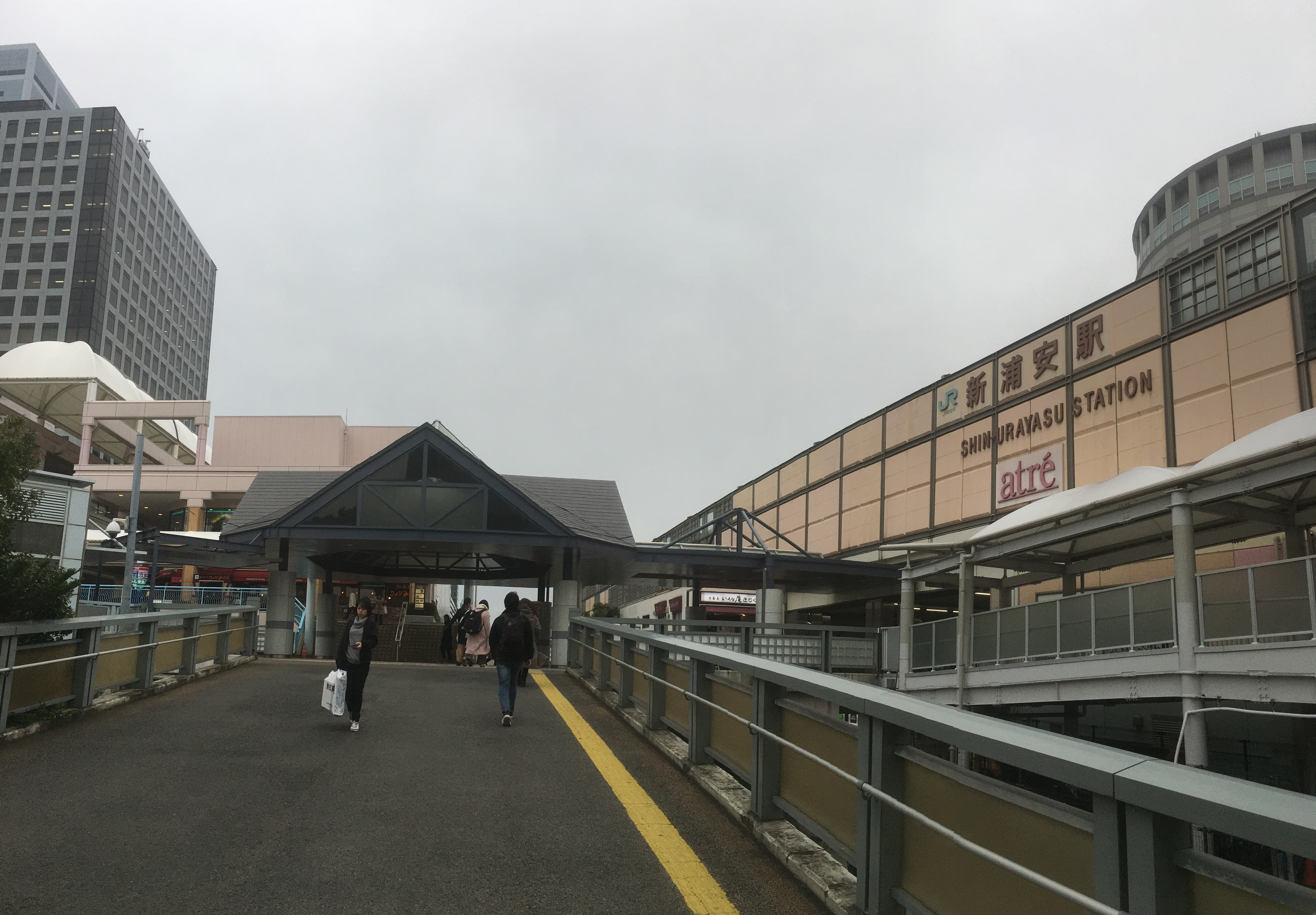 新浦安駅の南口 (Shin-Urayasu Station south exit)